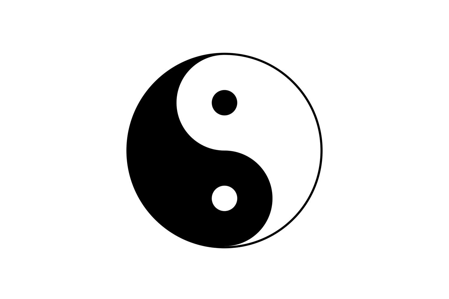 Religious flag of Taoism/Confucianism